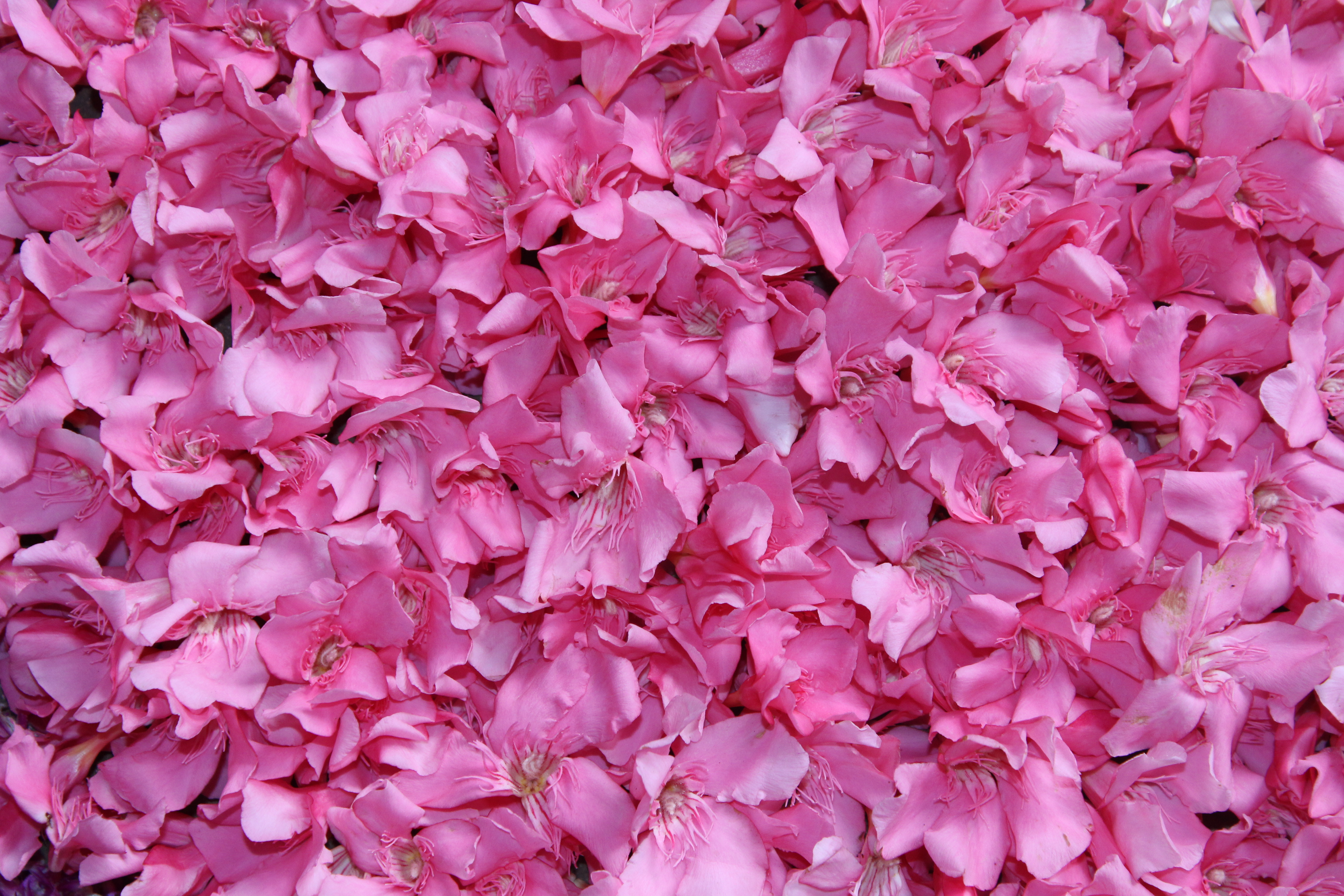 Pink Arali flowers for pookkalam - ONAM